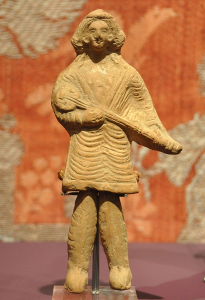 Lute player from the Parthian Empire, c 3 B.C. to 3 A.D., kept at the Leiden, Rijksmuseum voor Oudheden. Long-necked lute such as this are closest to the tanbur family of instruments today.